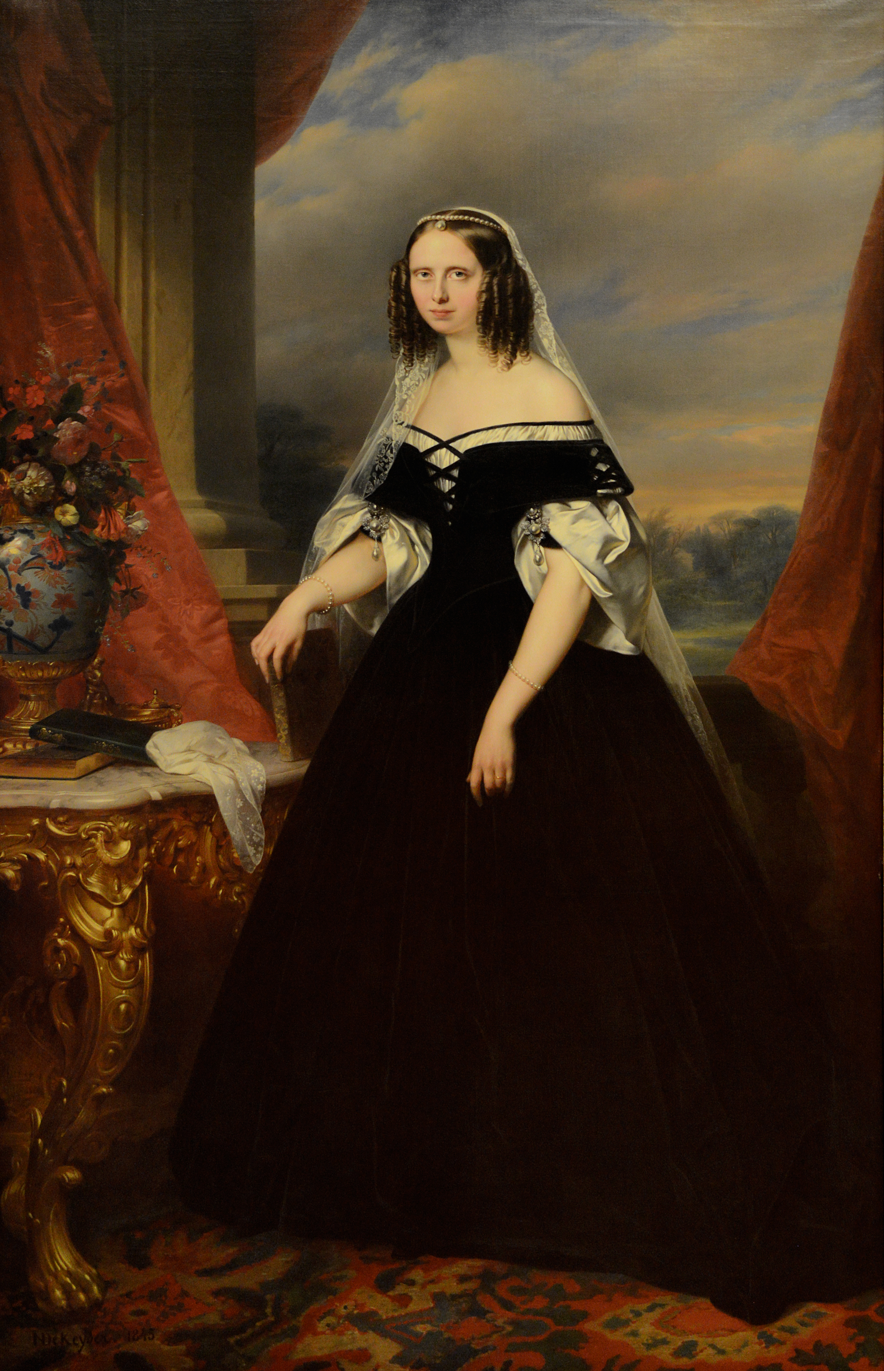 Sophie of Württemberg (1818-1877) - Queen consort of the Netherlands, Grand Duchess of Luxembourg and Duchess of Limburg